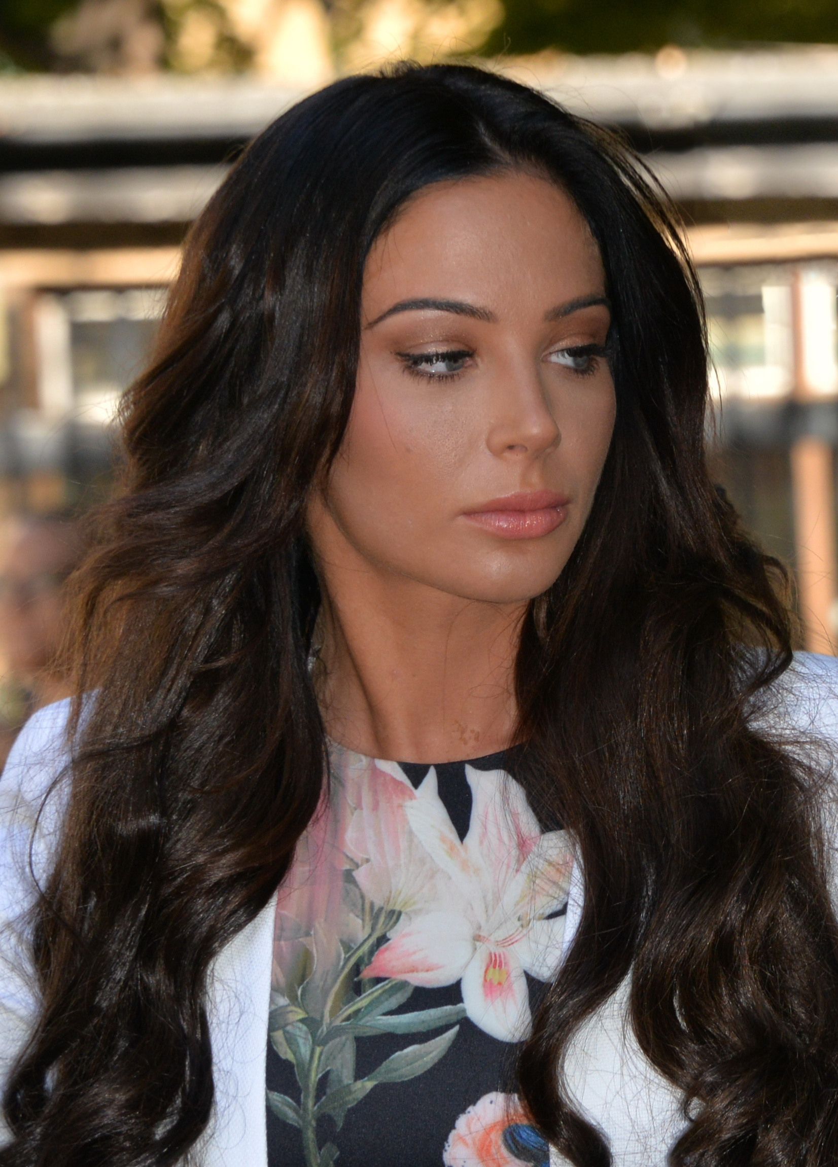 Tulisa Contostavlos arrives on trial starts over alleged supply of cocaine.